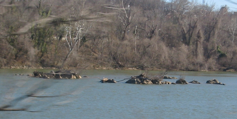 The Three Sisters, small granite islets in the Potomac River in the District of Columbia in the United States. A local landmark, a large bridge was scheduled to be built over them in 1961. A major political battle occurred over whether to build the bridge. The bridge was effectively cancelled in 1972.